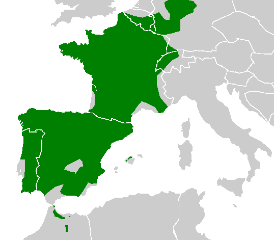 Distribution map of Genus Alytes